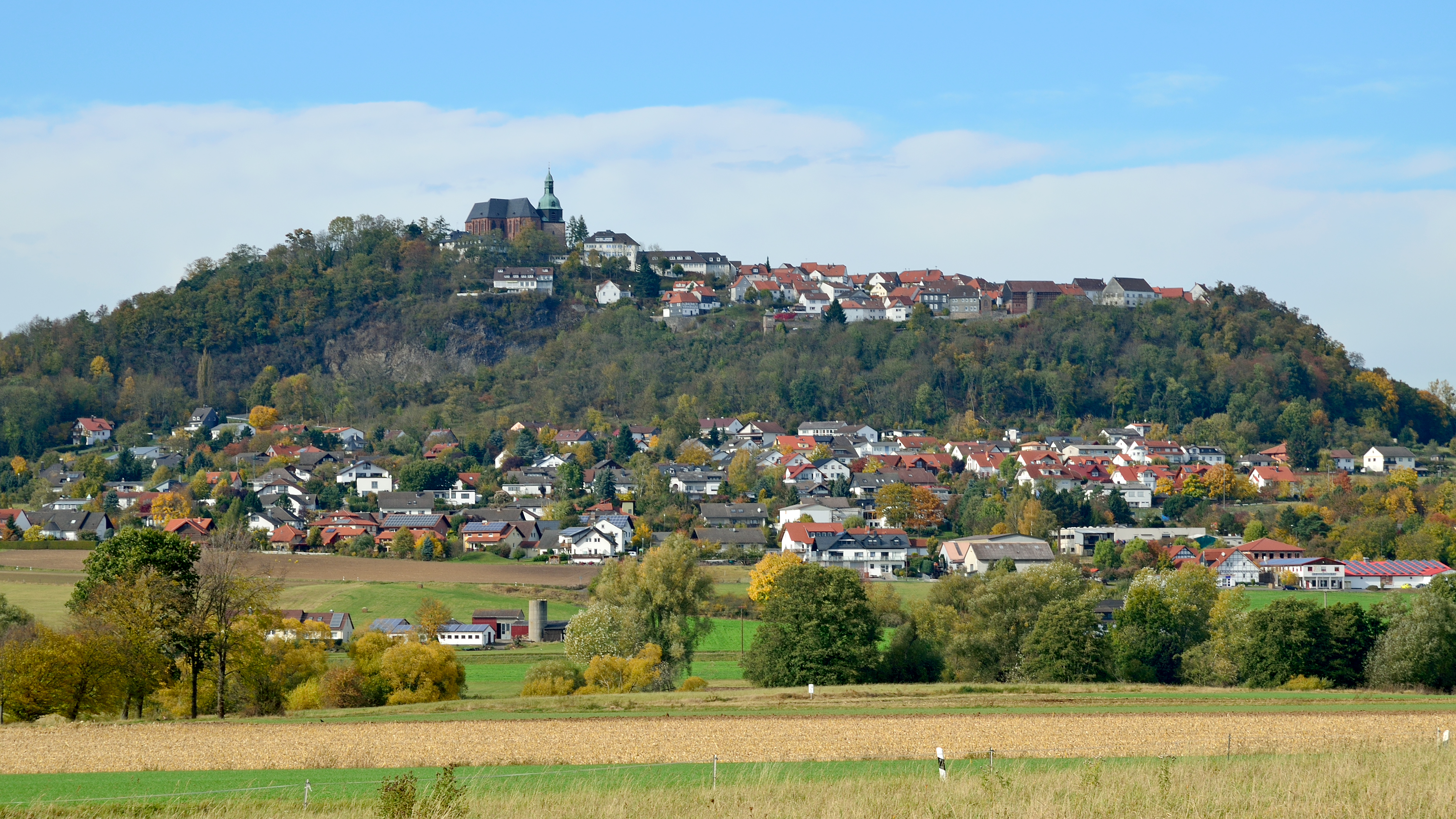 Amöneburg from Southeast